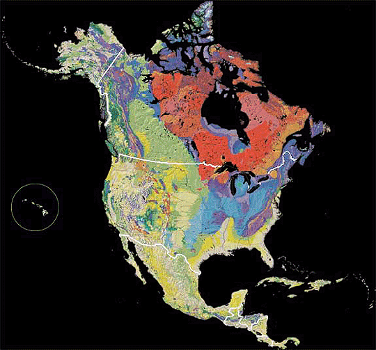 North American geological feature and border